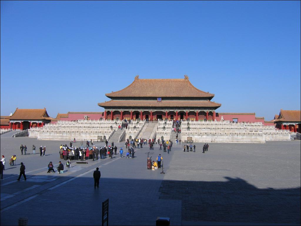 The Forbidden City in Beijing